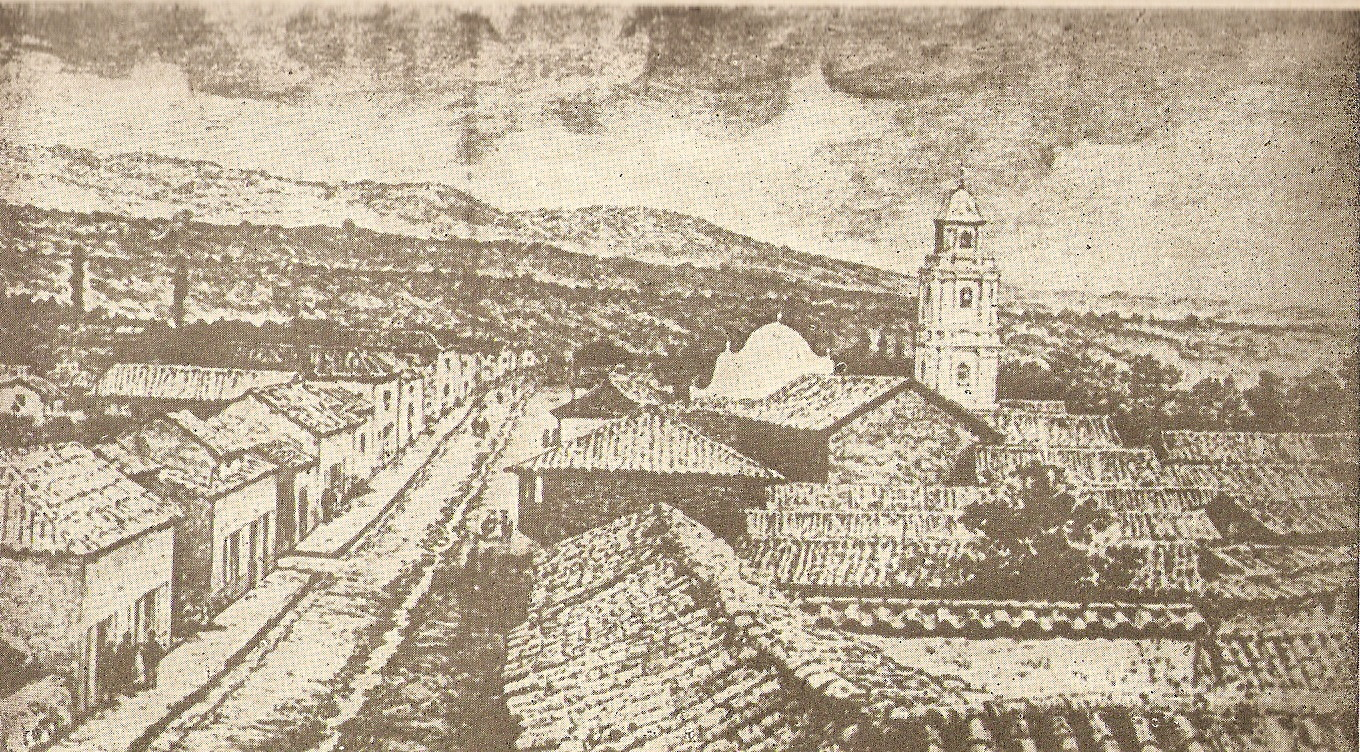 City of San Salvador de Jujuy (Argentina) in the 19th century.